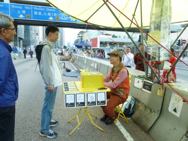 Kacey Wong drawing during the Umbrella Revolution, Hong Kong.